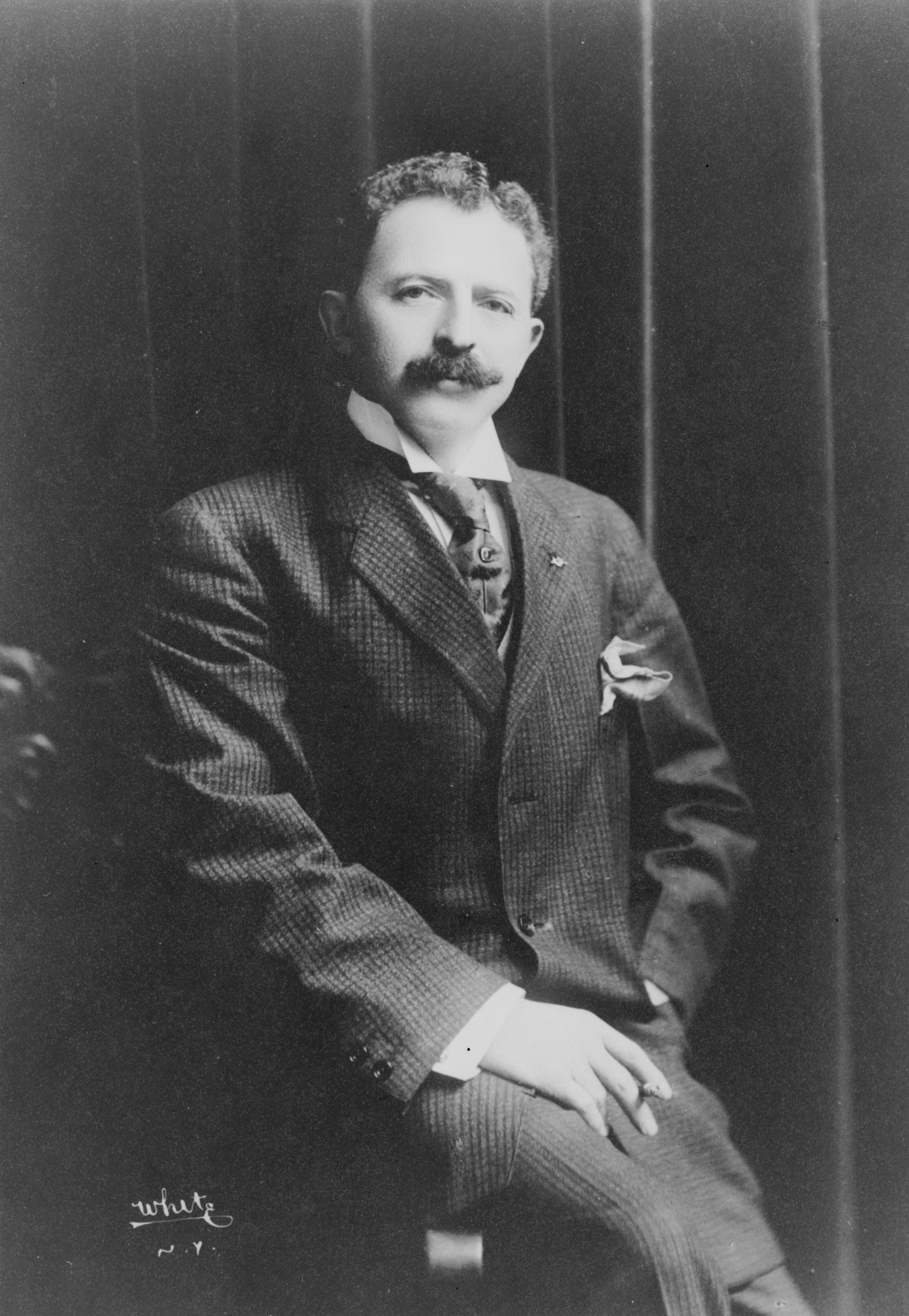 Title: Charles Kassell Harris, three-quarter length portrait, seated on arm of chair, facing front] / White, N.Y Abstract/medium: 1 photographic print.